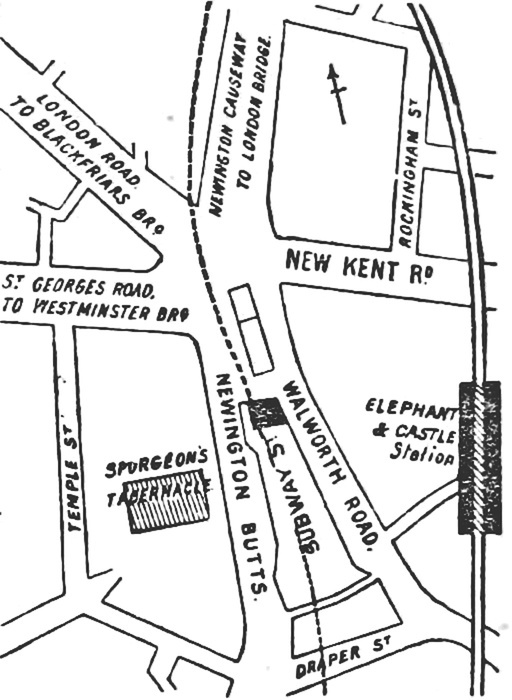 1888 plan of the area around Elephant and Castle in London, including Elephant and Castle railway station and the proposed location of Elephant and Castle tube station.